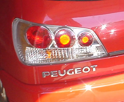 Lexus-style tail lights on a Peugeot 306.